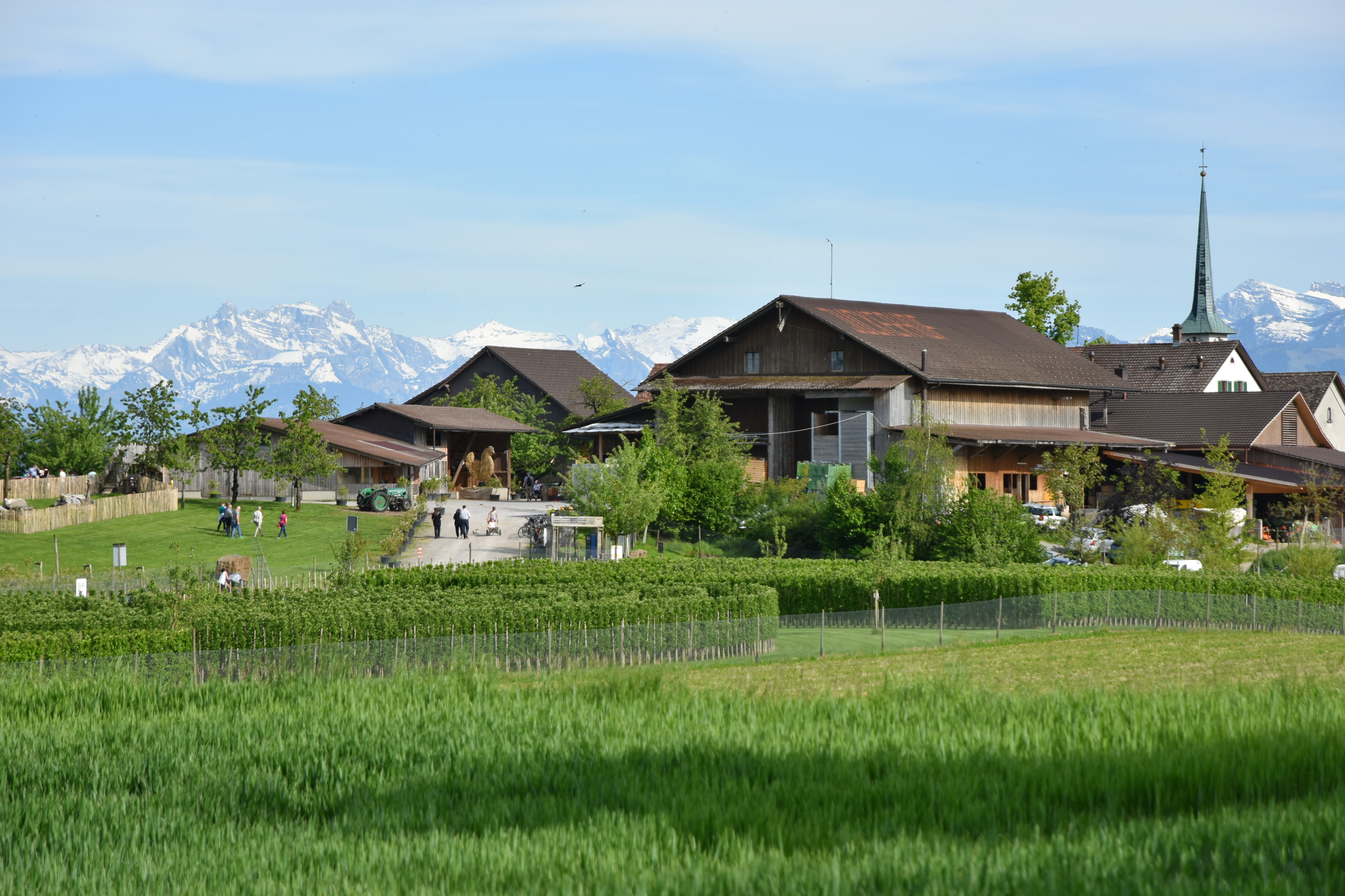 Swiss Alps as seen from Jucker Farm in Seegräben on Pfäffikersee lake shore (Switzerland)